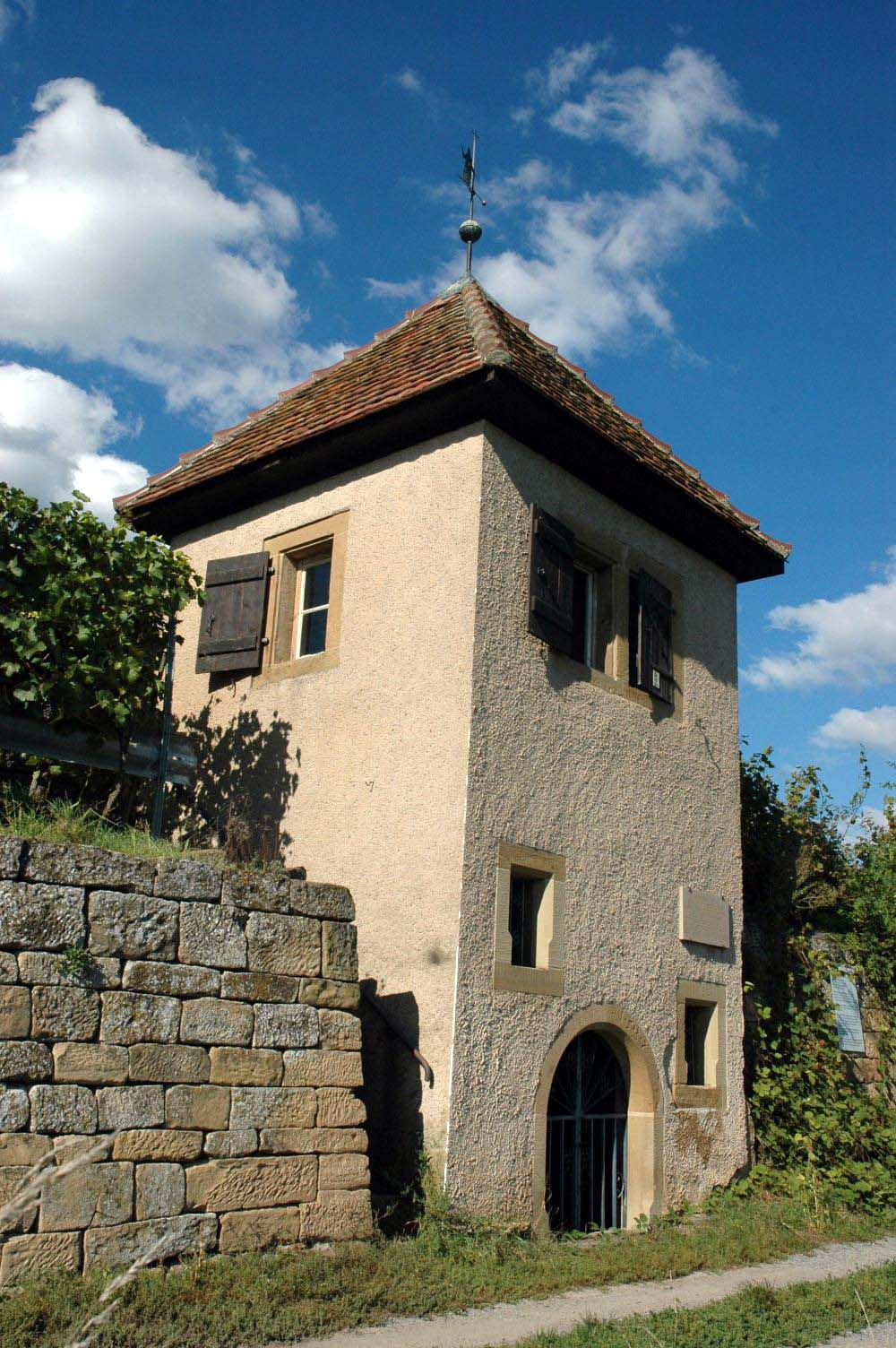 „Karmeliterhäuschen“ in Flein (Germany)